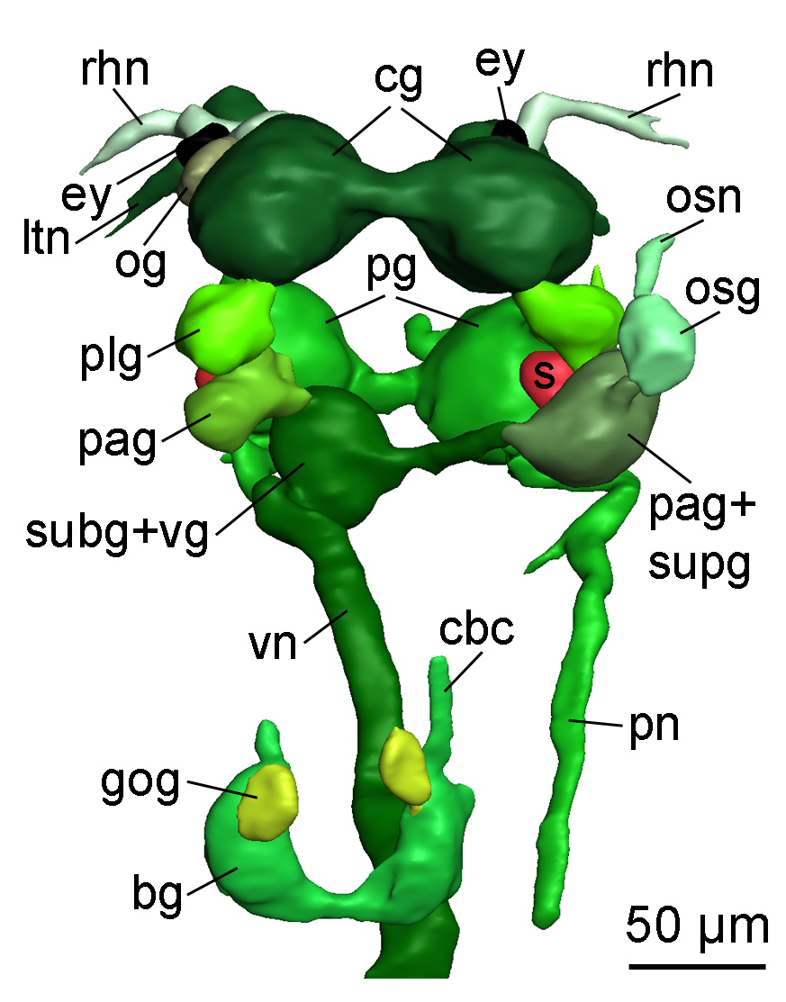 3D reconstruction of dorsal view of the central nervous system of small marine slug Pseudunela cornuta. It is a 3D model generated from 420 histological sections by segmentation and surface extraction. - The histological sections have been aligned and stacked together to form a 3D volume, which was then segmented. For each segment mathematical representation of its surface was generated (boundary surface extraction) and then this 3D model was visualized by rendering the surfaces.